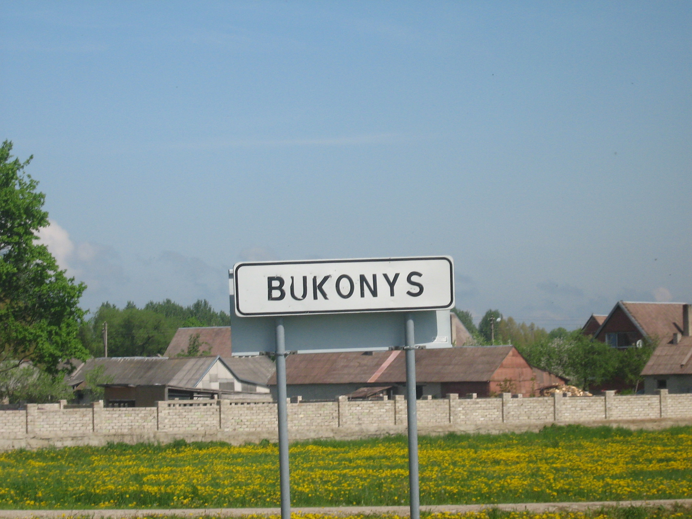 Bukonys